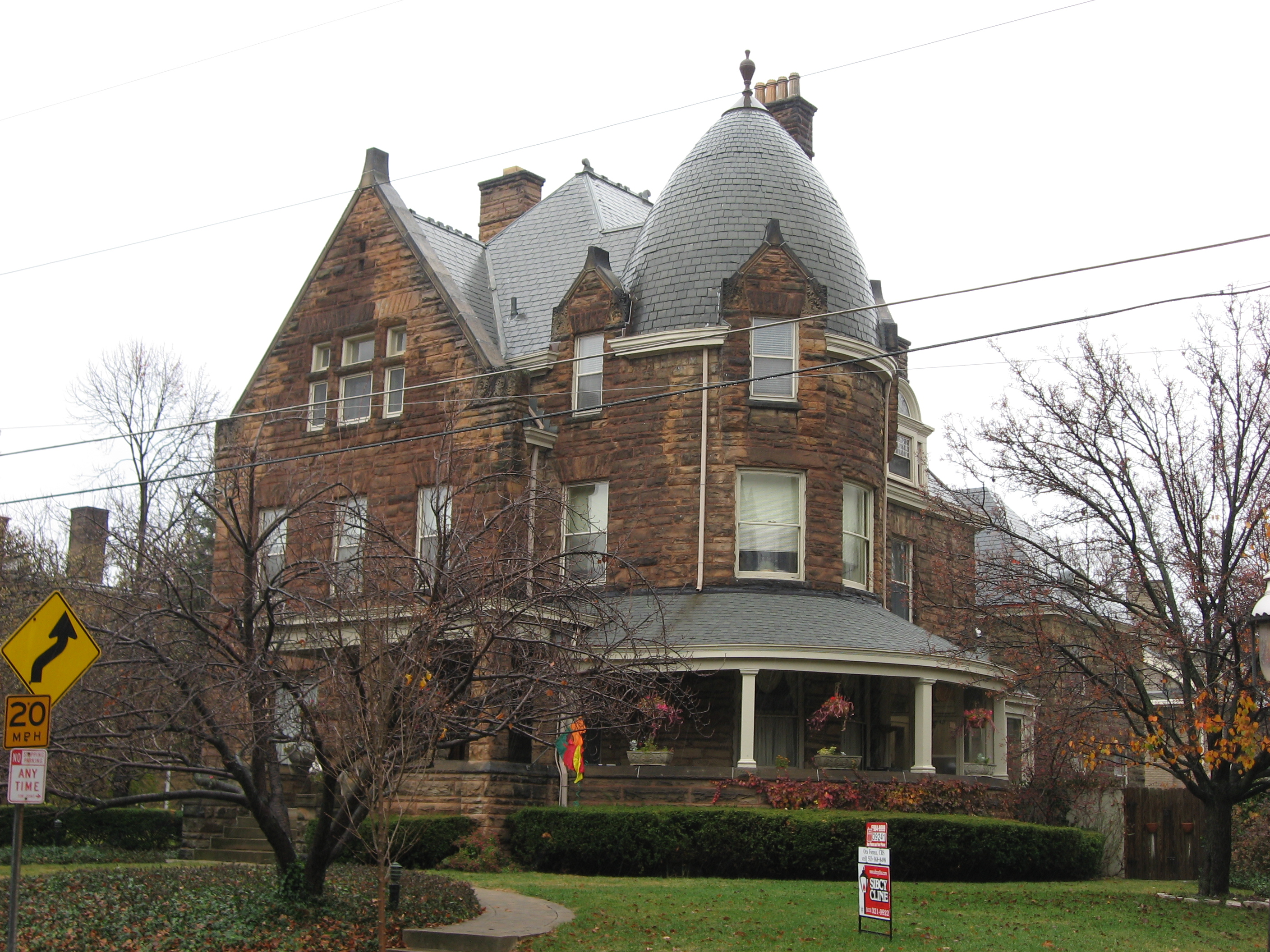 Front of the Charles B. Russell House, located at 3416 Brookline Avenue in the Clifton neighborhood of Cincinnati, Ohio, United States. Built in 1890, it is listed on the National Register of Historic Places.